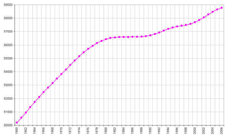 Italy's population (1960-2006)